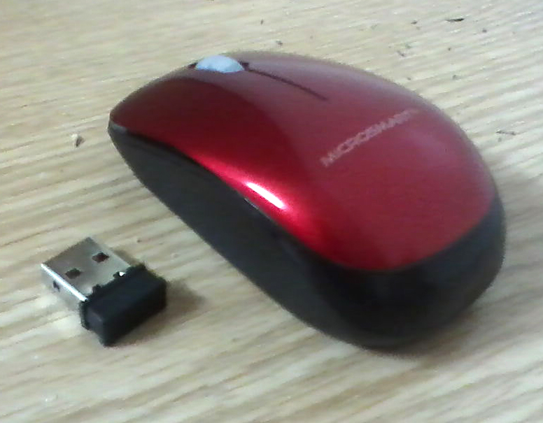 Microsmart wireless mouse